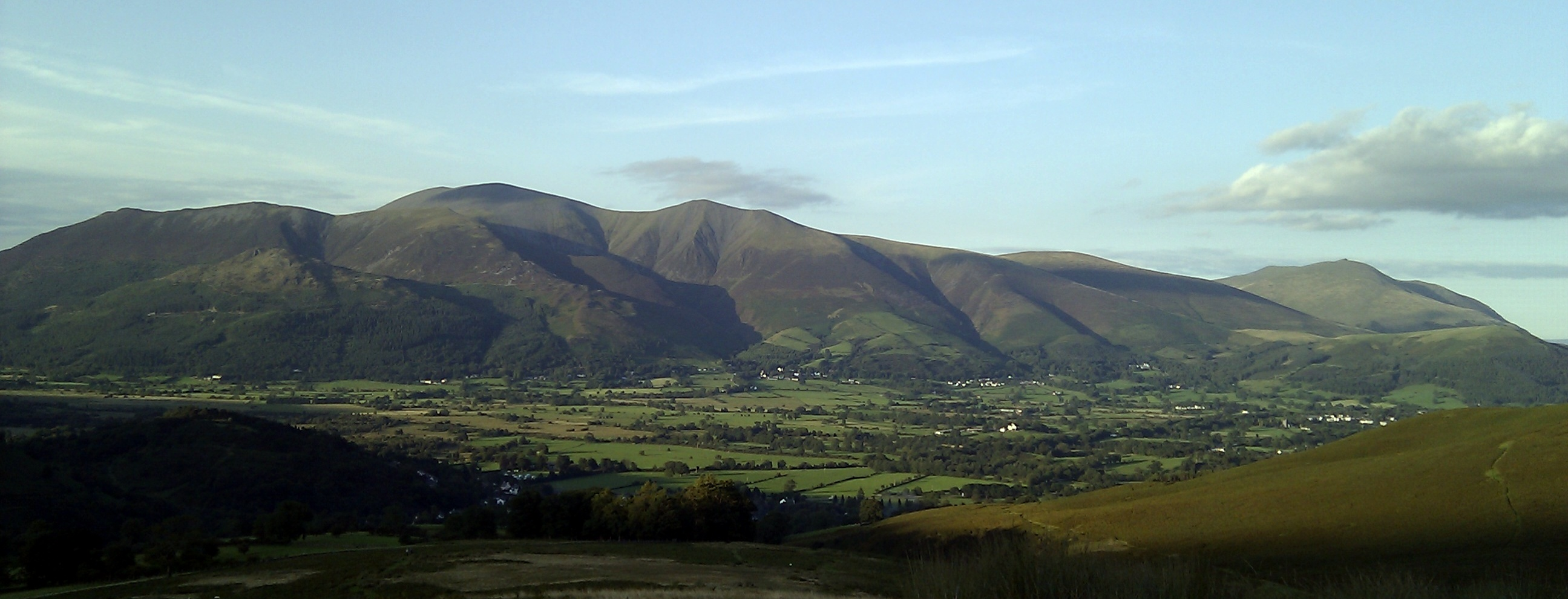 The Skiddaw Massif with the village of Braithwaite in the foreground, viewed from Outerside Fell